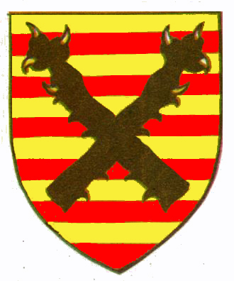 Coat of Arms of the Bulgarian-Wallachian Empire, confered 1218 by the Pope to the Tsar Ioan (Ivan) Asen I. Note - the relevance of this blazon, its description and interpretation are disputed, see File talk:Coat of Arms of the Bulgarian-Wallachian Empire.jpg for details.